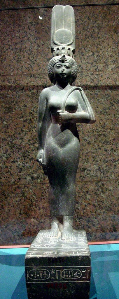 A statue of the final Egyptian God's Wife of Amun at Thebes, Ankhenesneferibre, of the 26th Saite dynasty. She was the daughter of the 26th dynasty Saite pharaoh: Psamtik II. The statue is now located in the Nubian Museum of Aswan in southern Egypt. Its catalogue number was CG42205. Karnak Cachette ʿnḫ-n.s-Nfr-jb-Rʿ